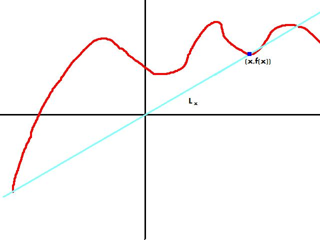 Example of a vector bundle. to be used in the article vector bundle in hebrew wikipedia דוגמה לאגד וקטורי